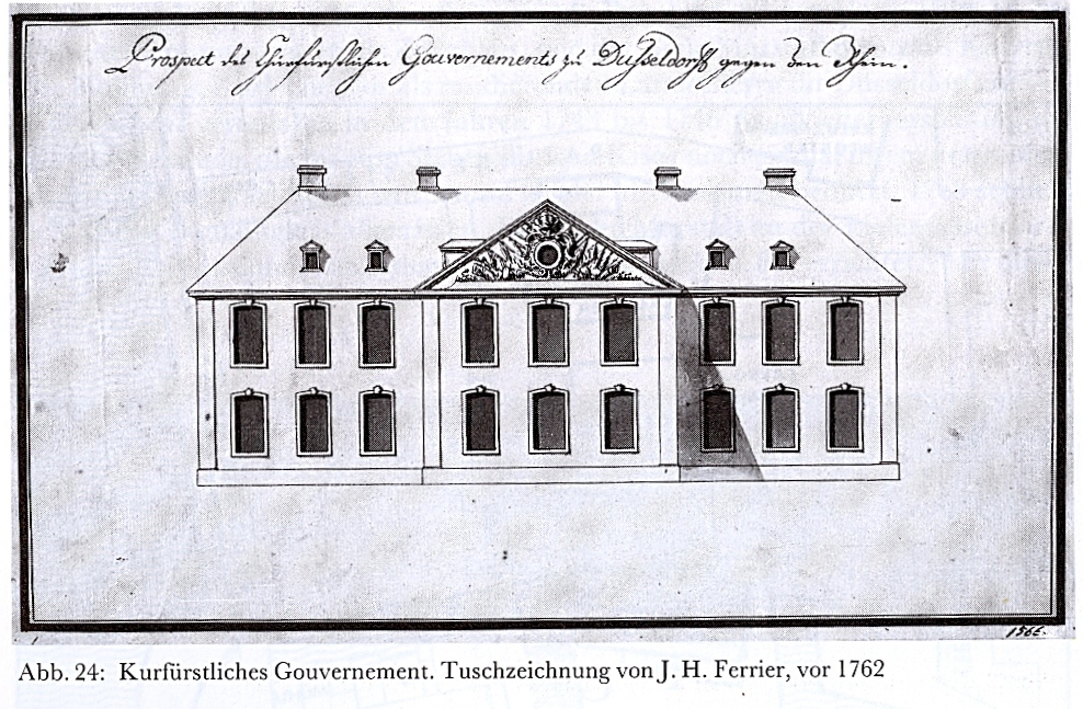 t